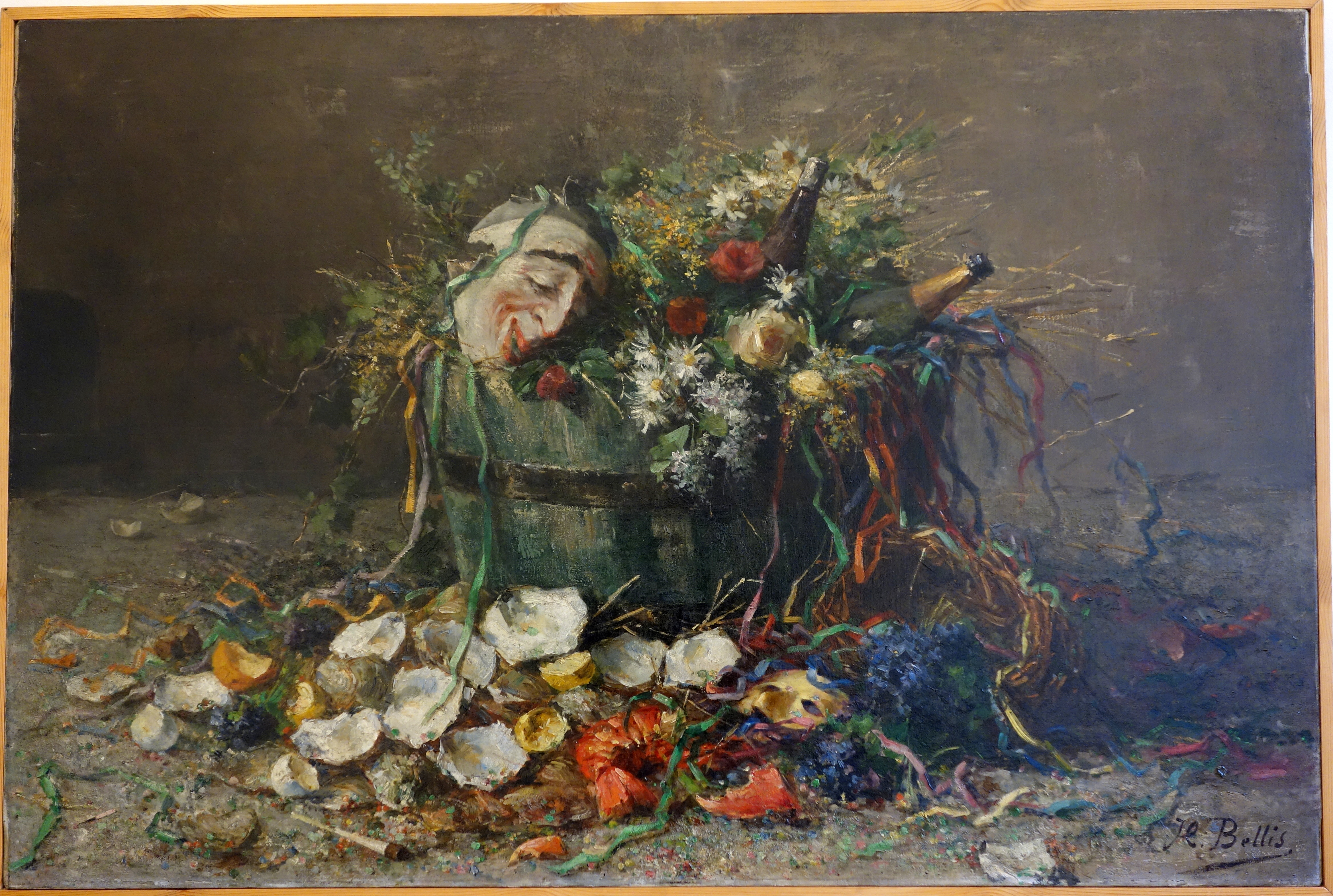 Exhibit in Museum M - Leuven, Belgium. Artwork is in the public domain because the artist died more than 70 years ago.